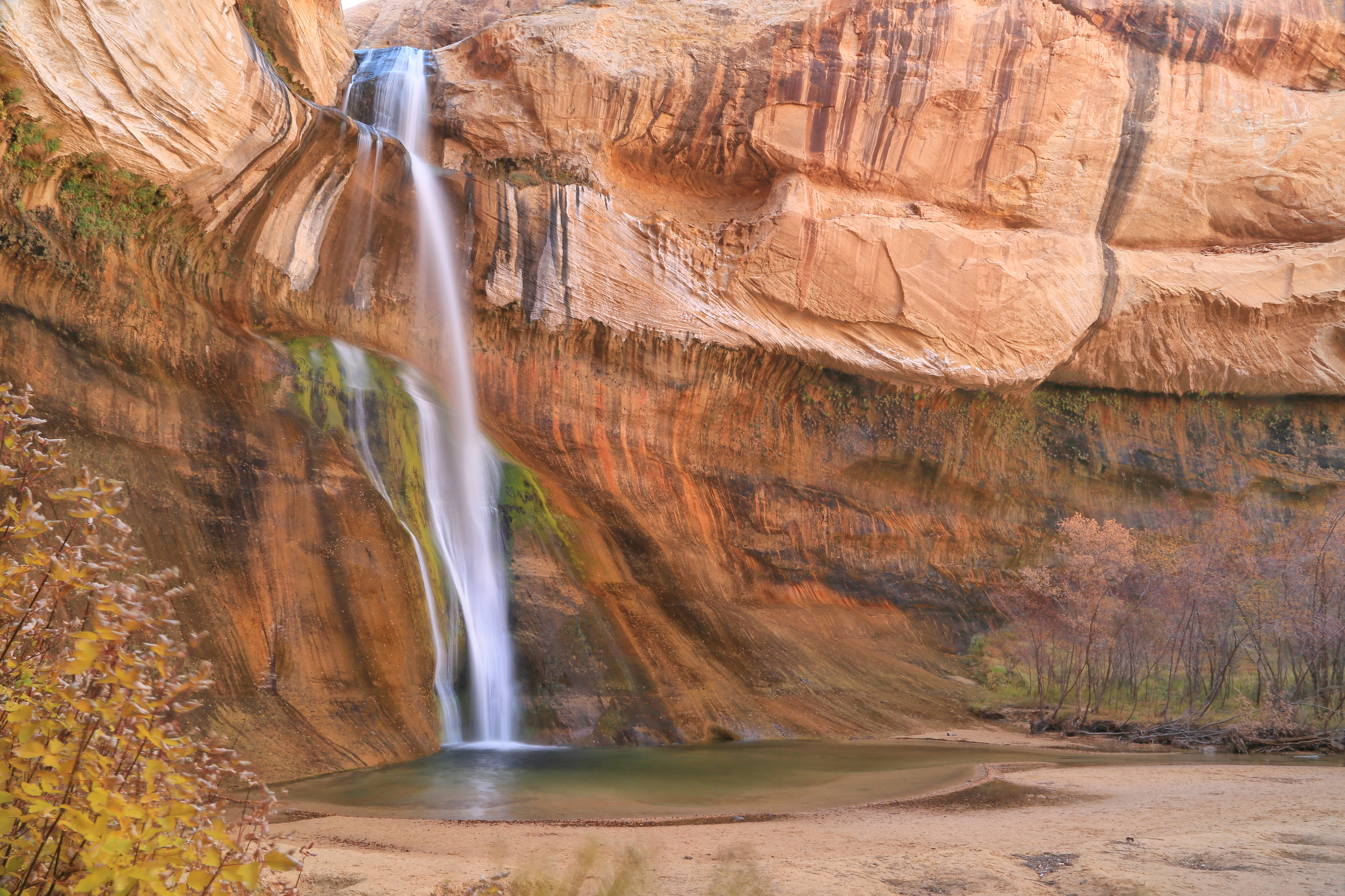 Calf Creek Canyon — Here's something to stare at while you drink that cup of morning coffee...a beautiful shot of Lower Calf Creek Falls in Calf Creek Canyon, Utah. The falls developed in early Jurassic age Navajo Sandstone. The fall is 126 feet high (~38 meters). Thanks to Alan Cressler (alan_cressler on Flickr) for sharing this photo with the USGS Science in Action Flickr Group! Share your earth science photo for a chance to be featured in upcoming USGS products and social media: bit.ly/USGSPhotoPool USGS #science #waterfall #Utah #canyon #cliff #water